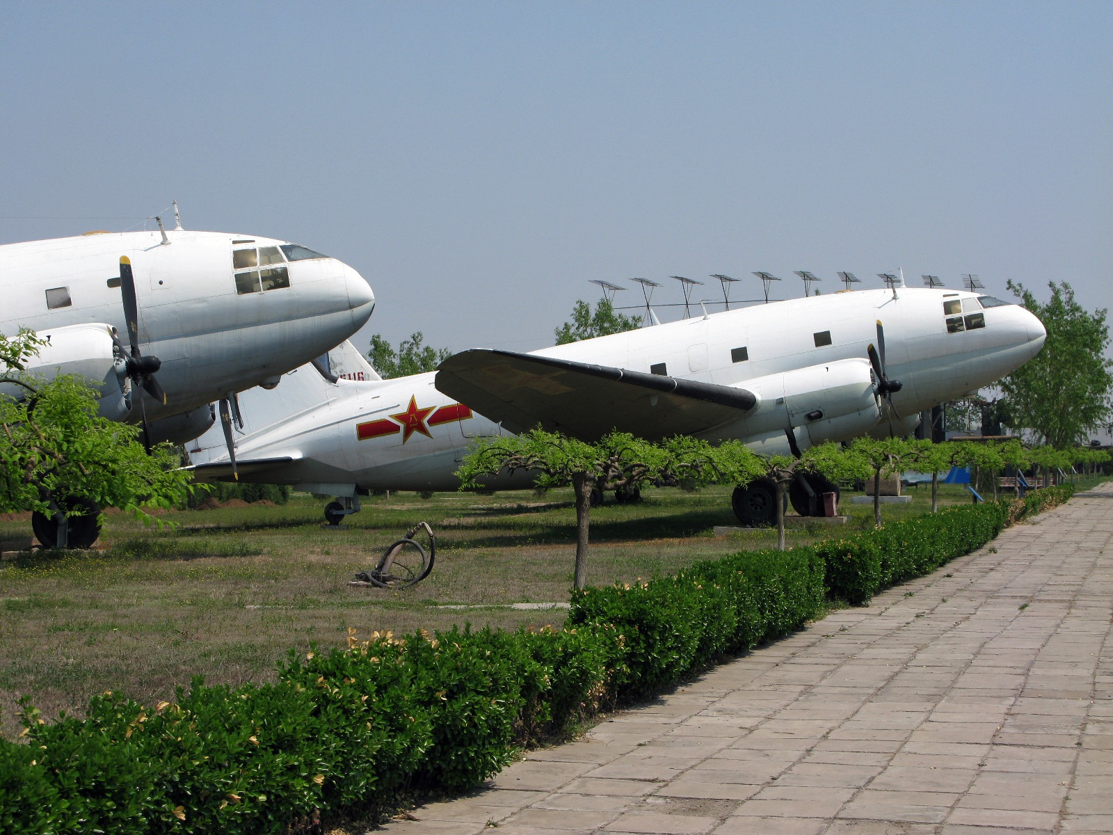 Aircraft at the China Aviation Museum.